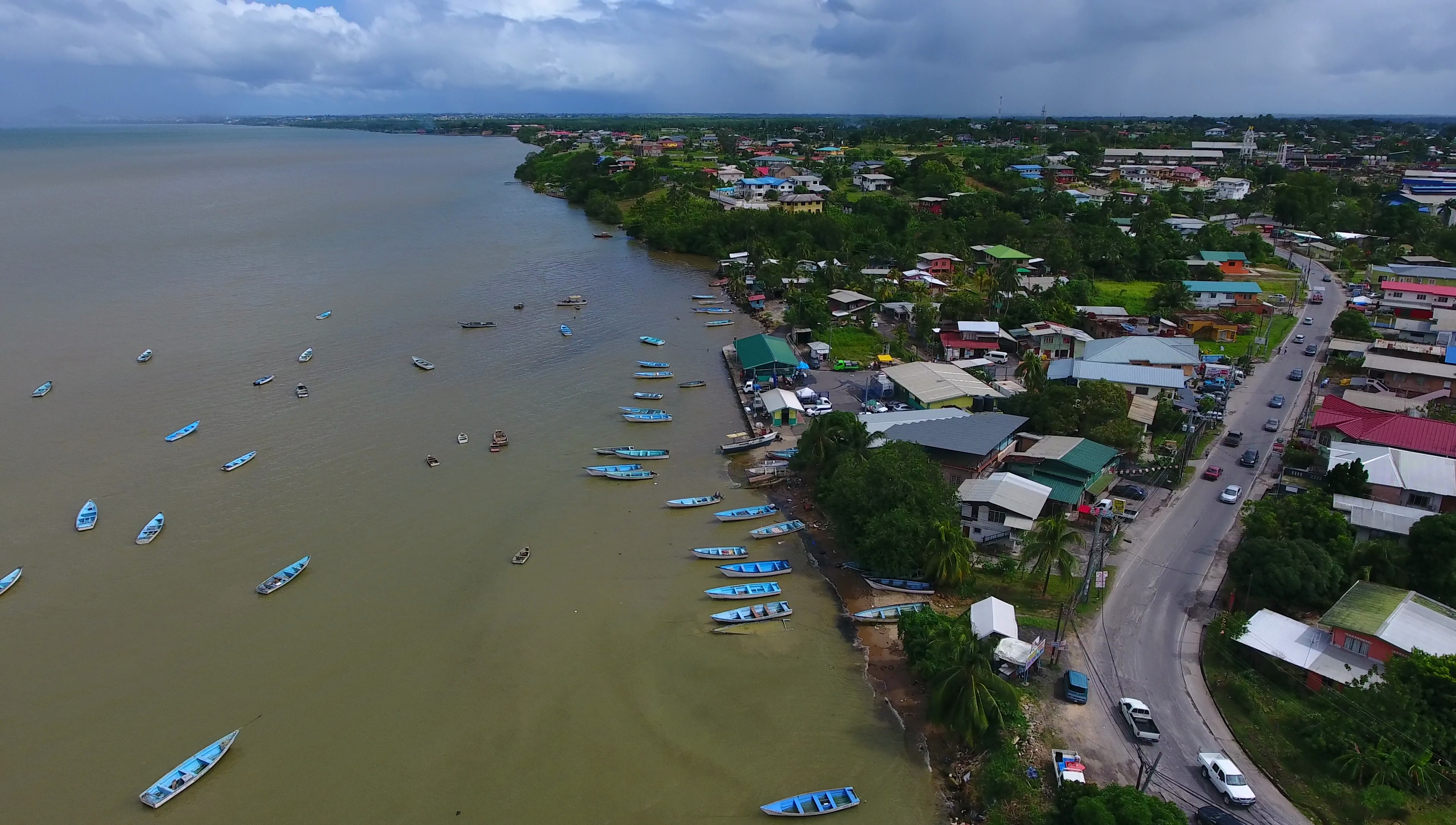 South Oropouche, Siparia, Trinidad and Tobago. Front: fishing village Dow. Centre: South Oropouche proper. Road: Southern Main Road. Water body: Gulf of Paria. Mountain in top left corner: San Fernando Hill. Photo taken as part of the Southern Trinidad Aerial Photo Project, a small project sponsored by WMDE. Drone used: DJI Phantom 4. Snapshot taken from video footage via VLC.